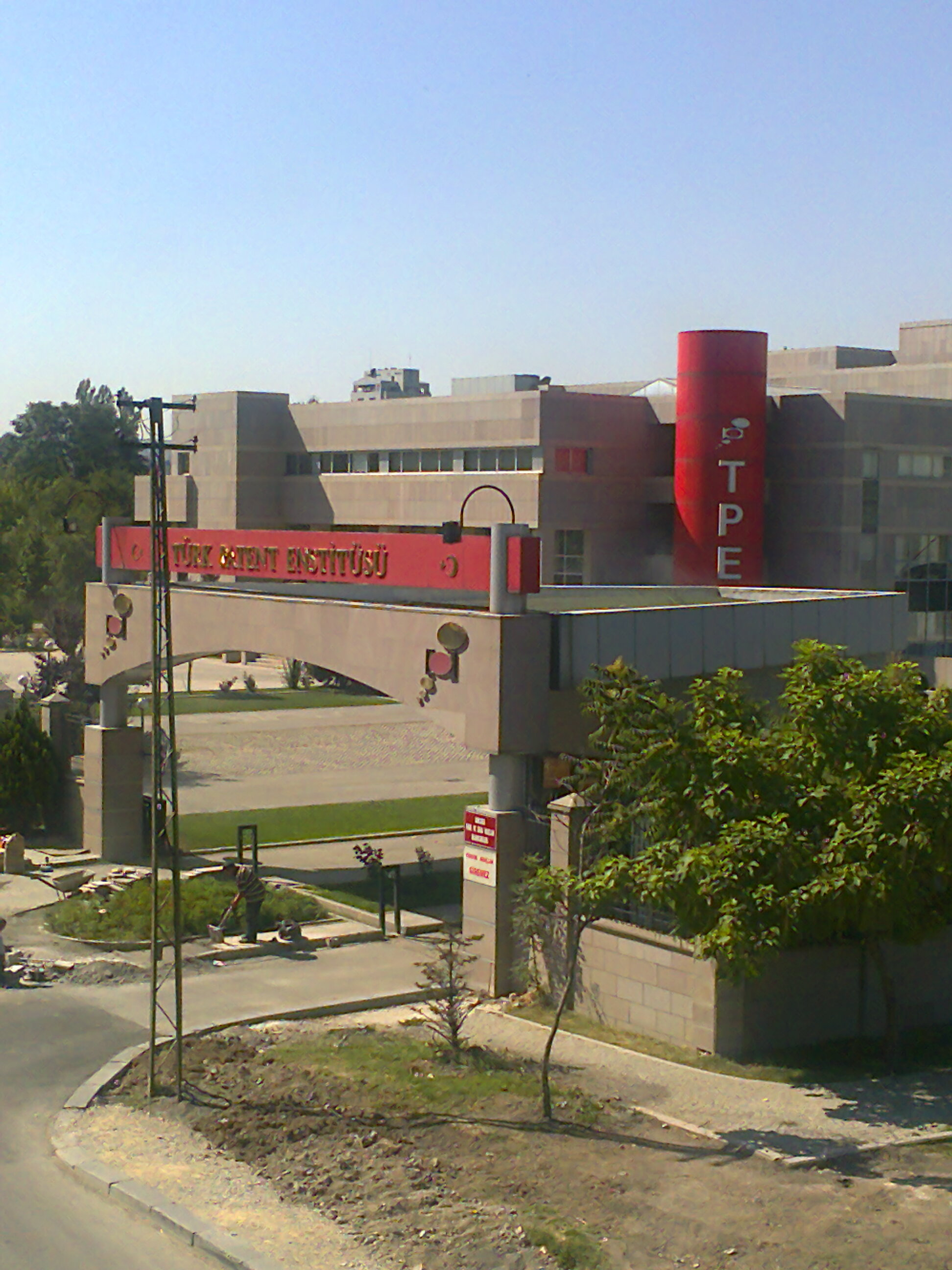 Turkish Patent Institute